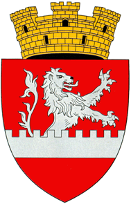 Coat of arms of Leova